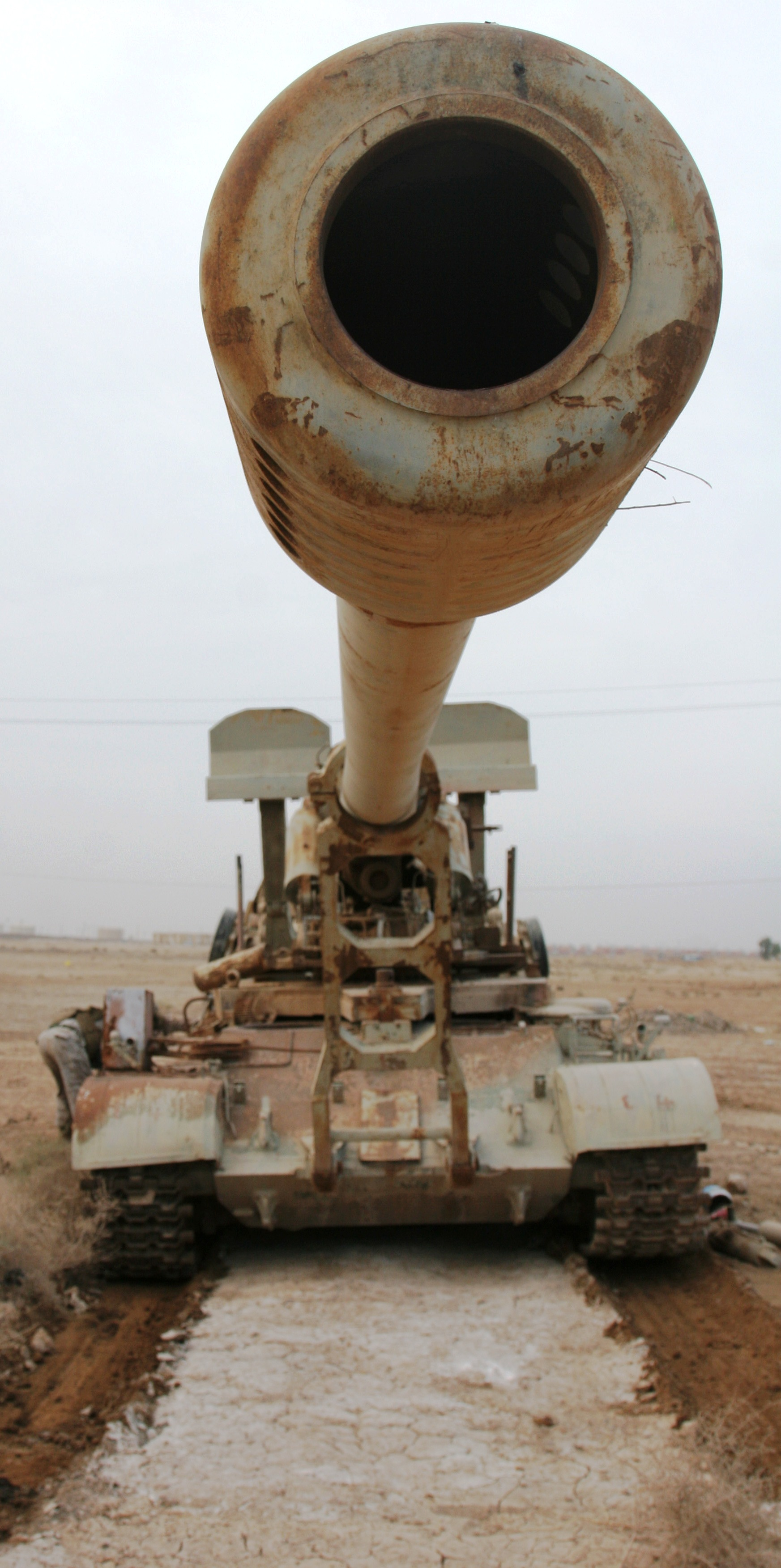 A North-Korean-built M-1978 KOKSAN displayed at the Al Anbar University campus in Ramadi (Iraq) is to be removed by U.S. Forces.